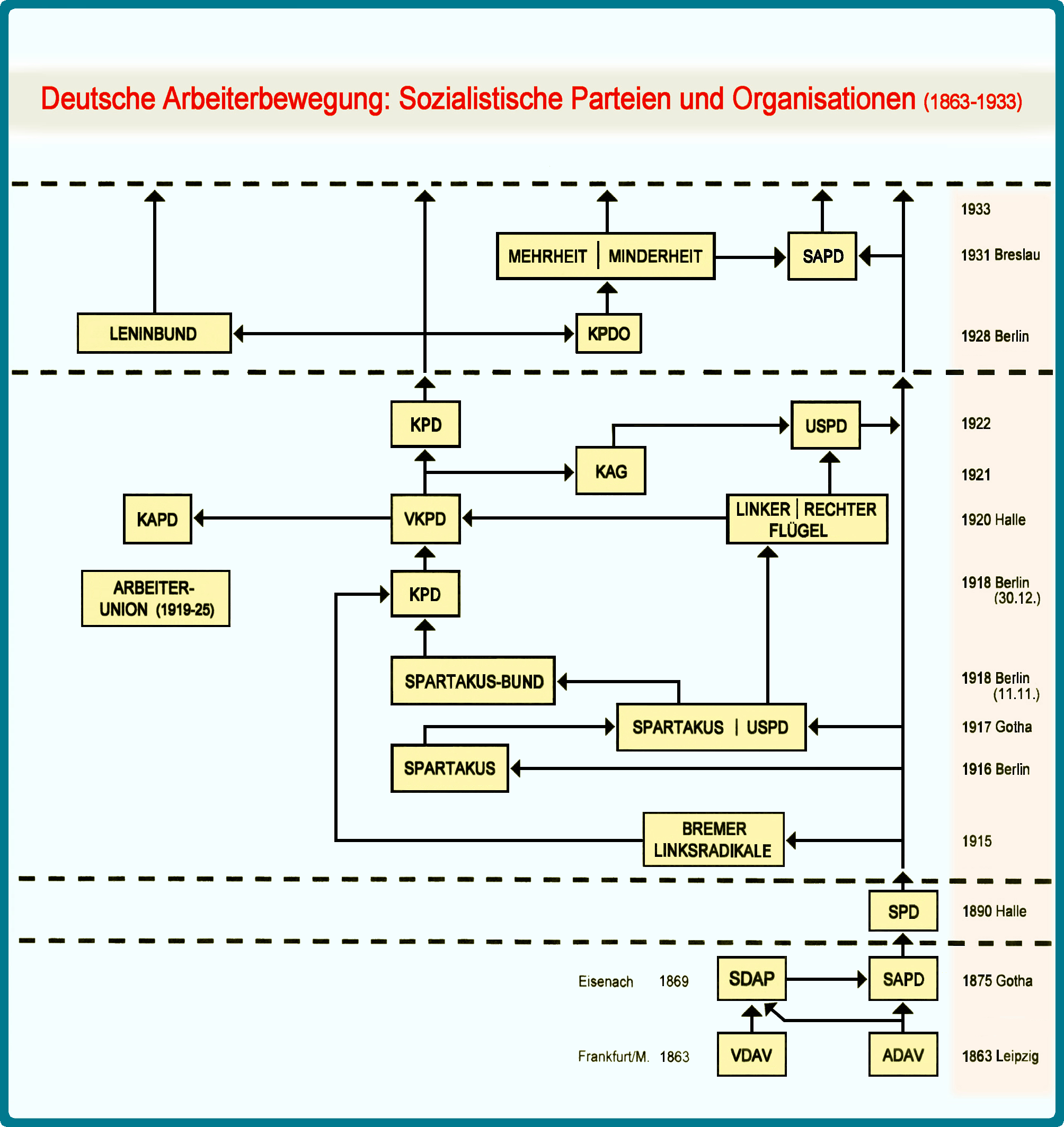 Labor movement in Germany: Diagram of social democratic parties and organizations (from 1863 to 1933)